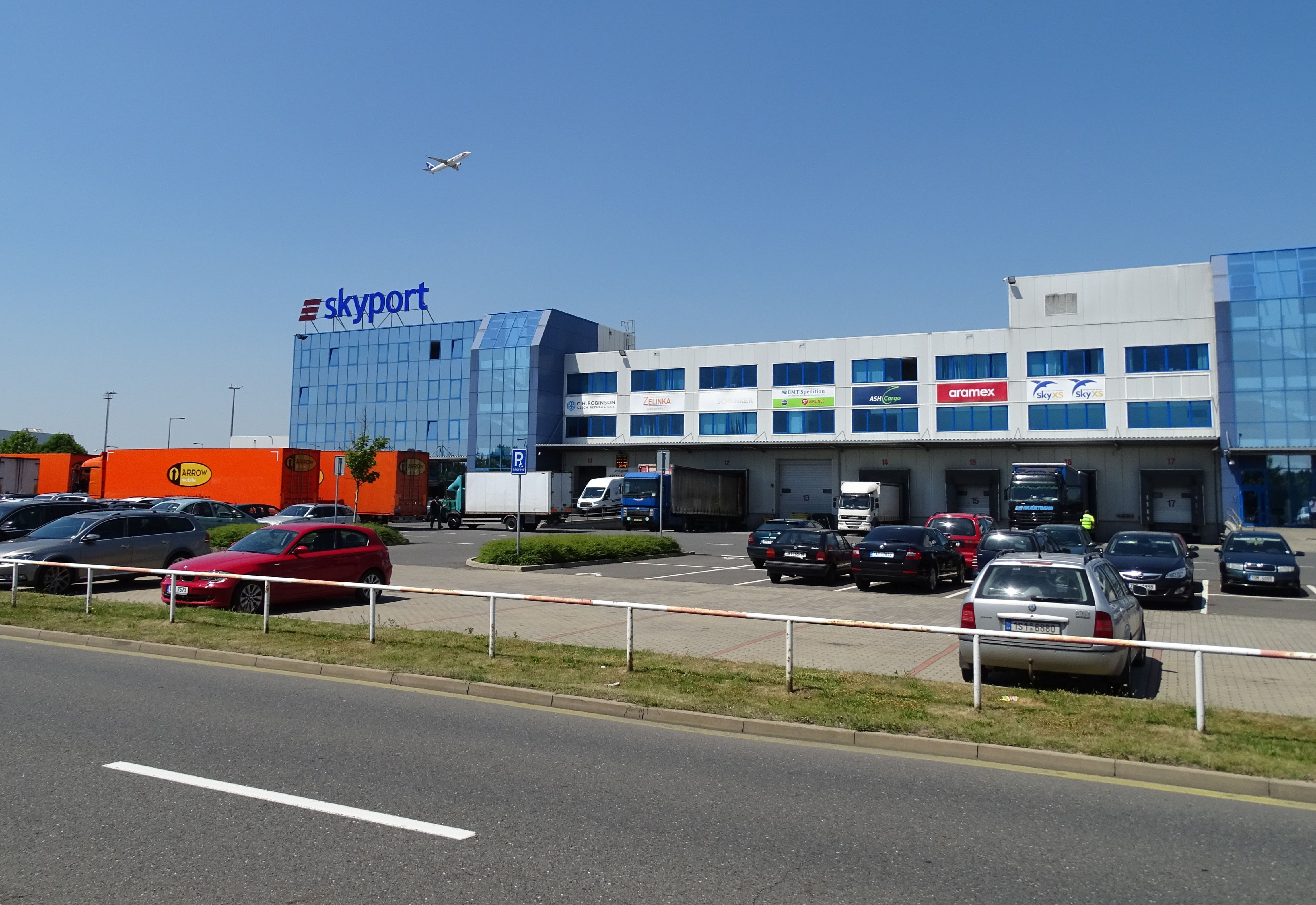 Prague-Ruzyně, Czech Republic. Václav Havel Airport Prague, Laglerové 1075/4, Skyport cargo terminal.